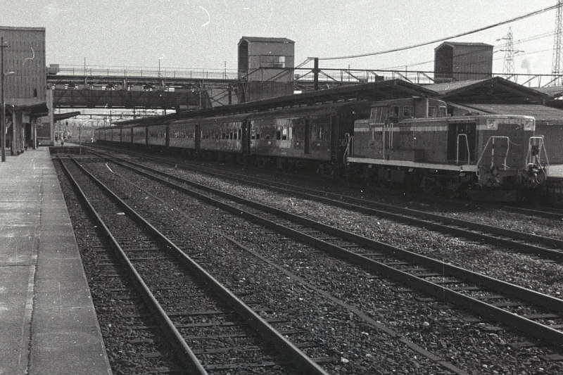 A JNR morning Gantoku Line train at Iwakuni Station, headed by DE10 1053 of Hiroshima depot. The first coach in the train is combo type OHaNi61 No. OHaNi61375.